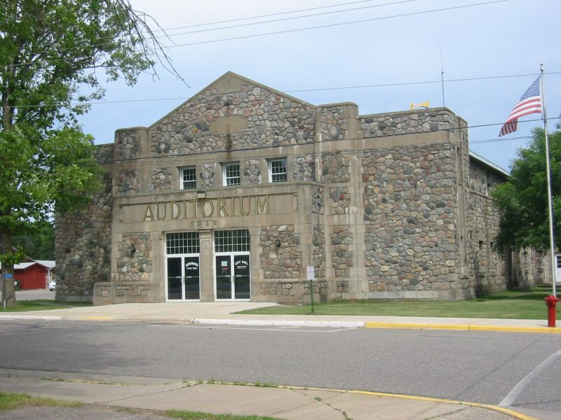 The Deerwood Auditorium in Deerwood, Minnesota, built by the Works Progress Administration. It is on the National Register of Historic Places.